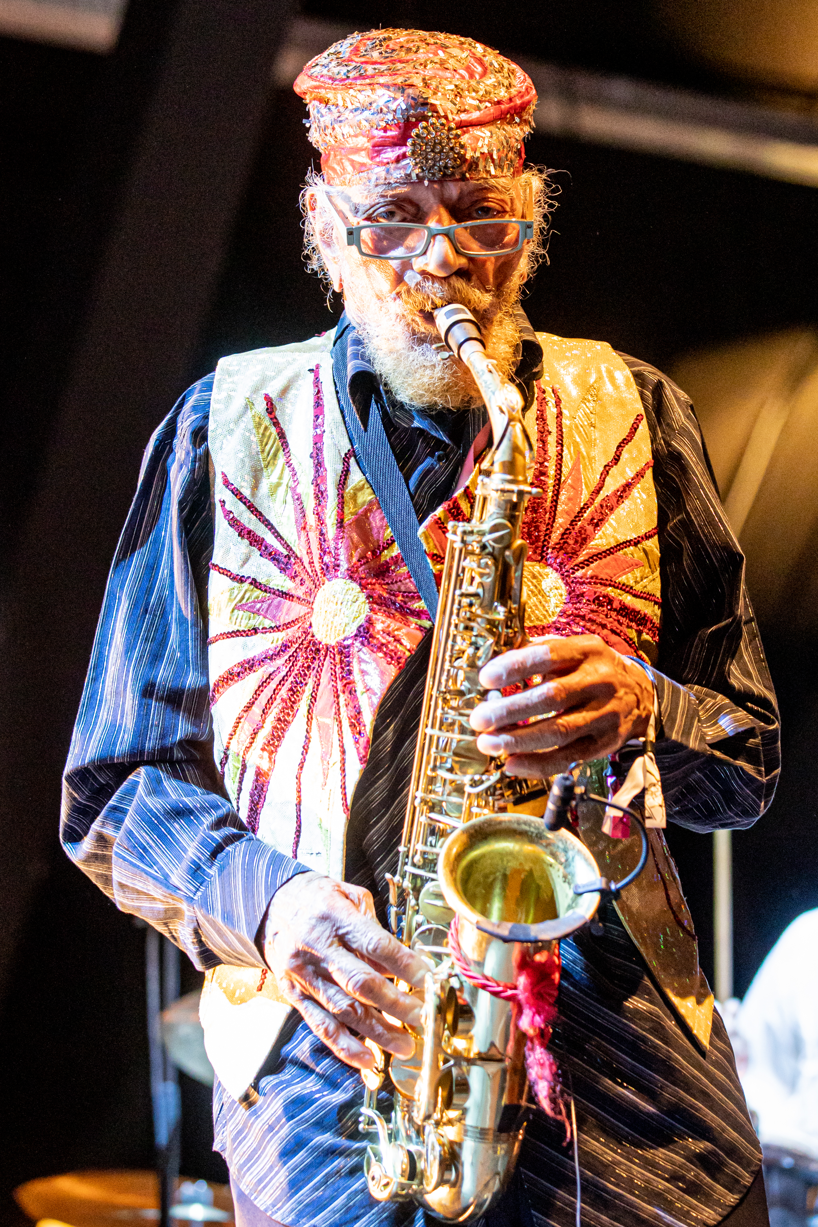 Jazz musician Marshall Allen at the Moers Festival 2019